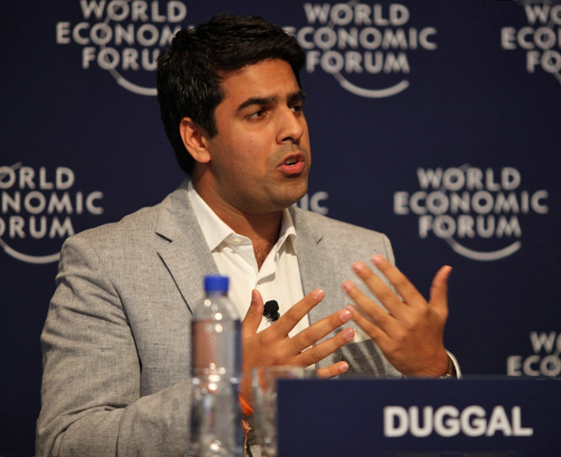 Picture of Nivio CEO and president Sachin Duggal